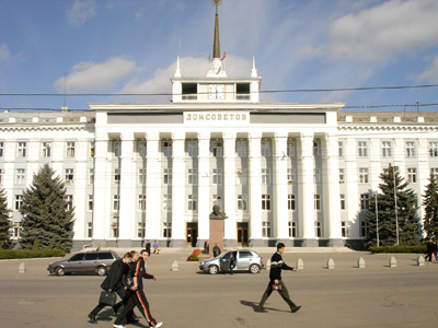 House of Soviets, Tiraspol in 2006